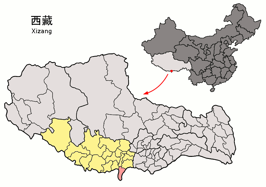 Location of Yadong County (pink) and Xigazê Prefecture (yellow) within Tibet (Xizang) autonomous region of China